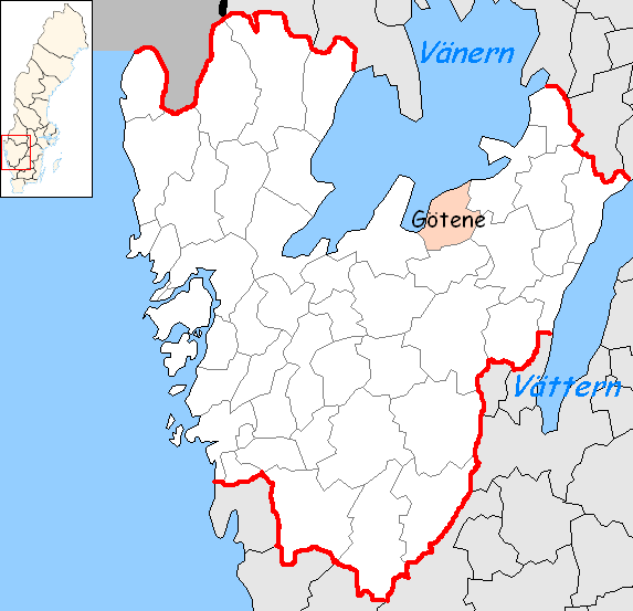 Götene Municipality in Västra Götaland County Designed by me. Mere outlines are a PD source from